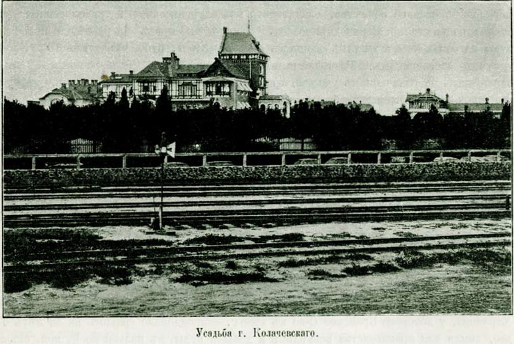 Mansion of S. N. Kolachevsky, the owner of an iron ore mine in Kryvbas at the beginning of XX century